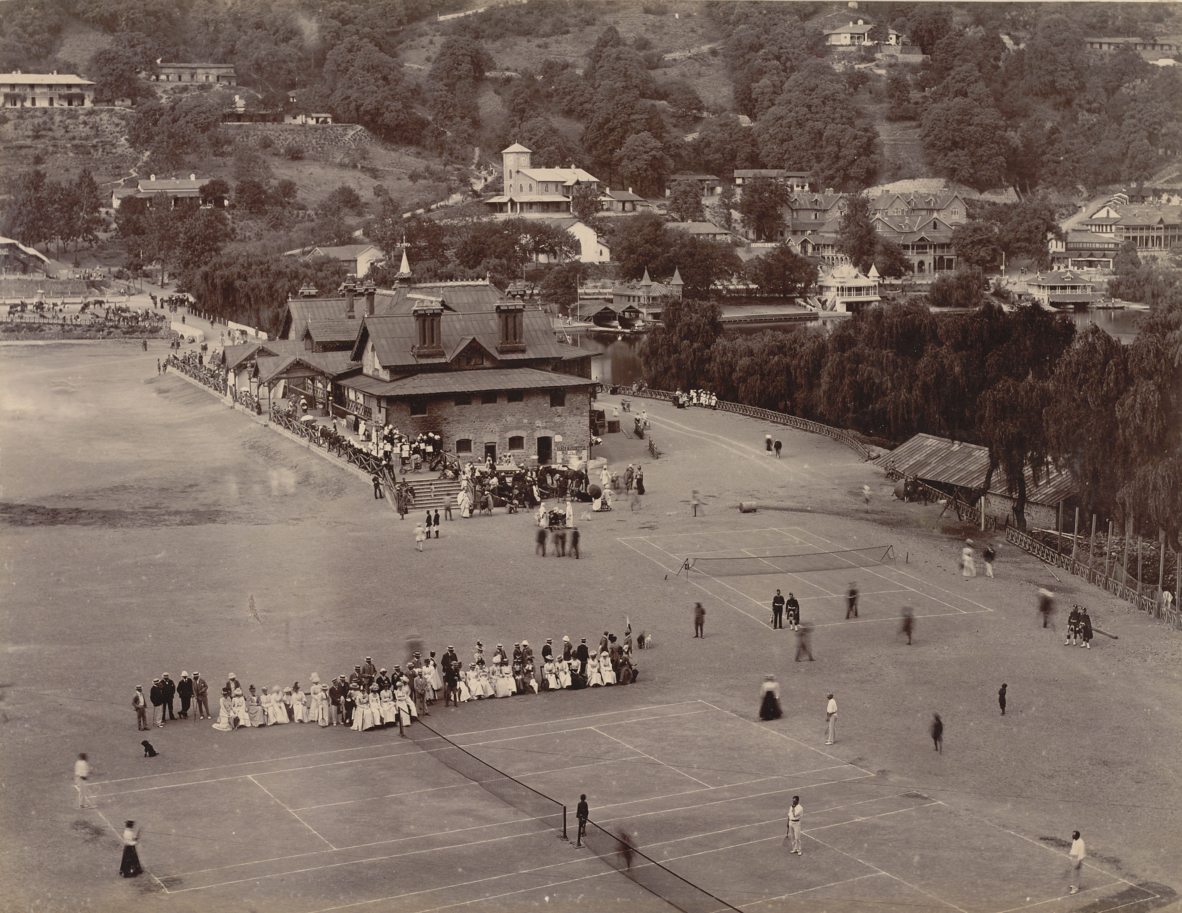 Tennis Tournament, Naini Tal, 1899 Macnabb Collection (Col James Henry Erskine Reid): Album of Indian views Oriental and India Office Collection, British Library